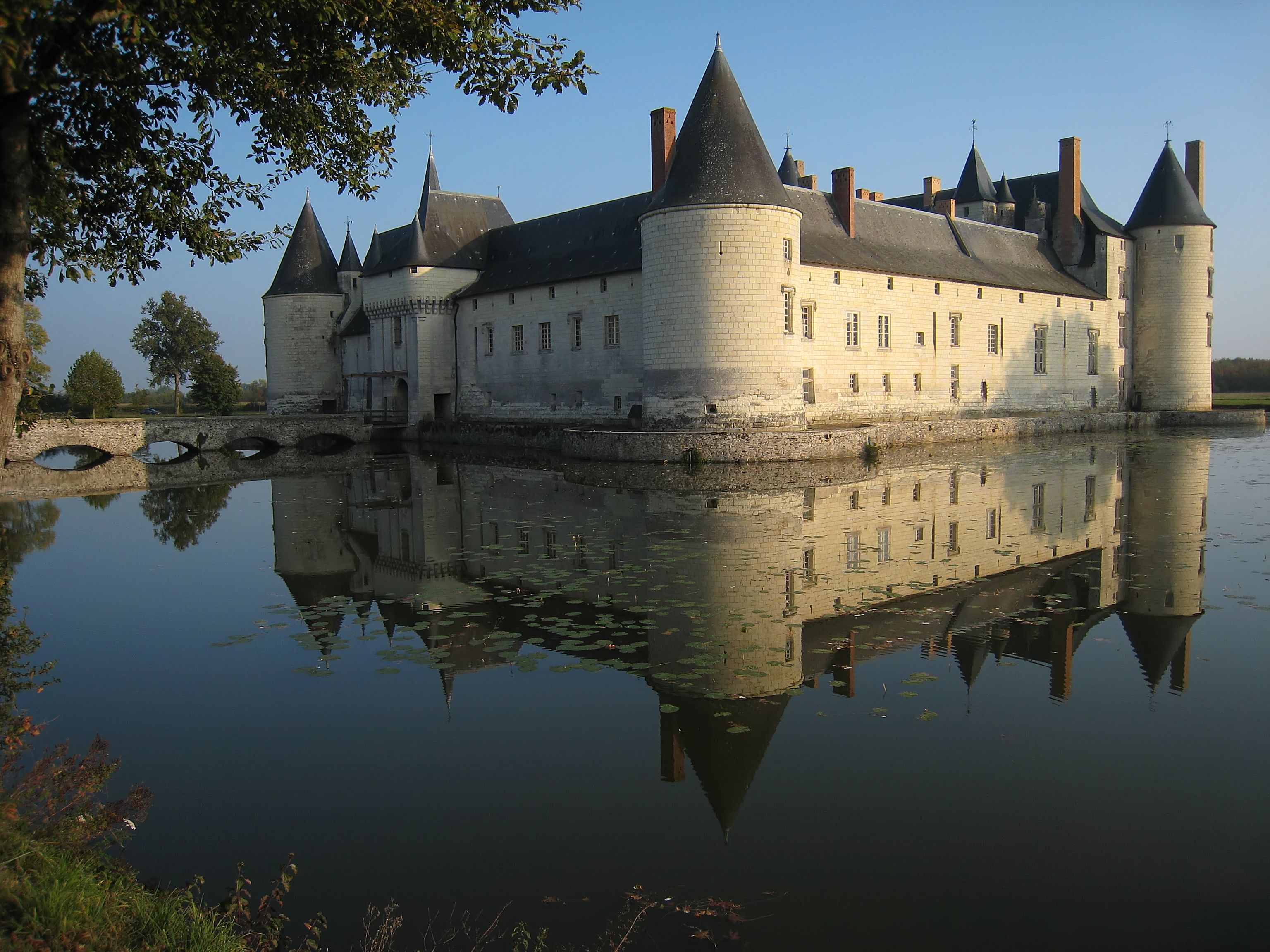 Castle Le Plessis-Bourré, located near the village of Écuillé in Maine-et-Loire département, France.